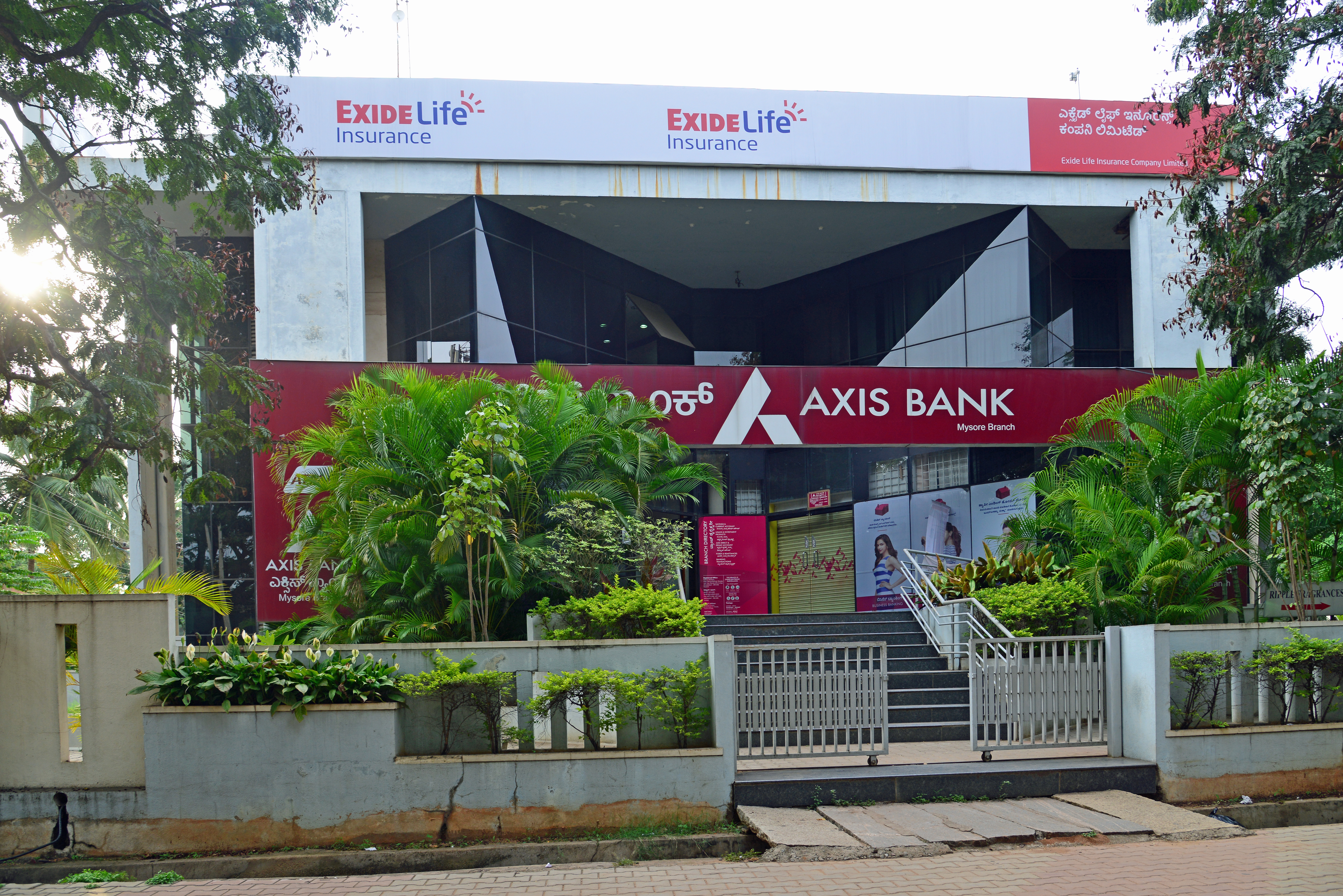 Axis Bank, Temple Road, Mysore